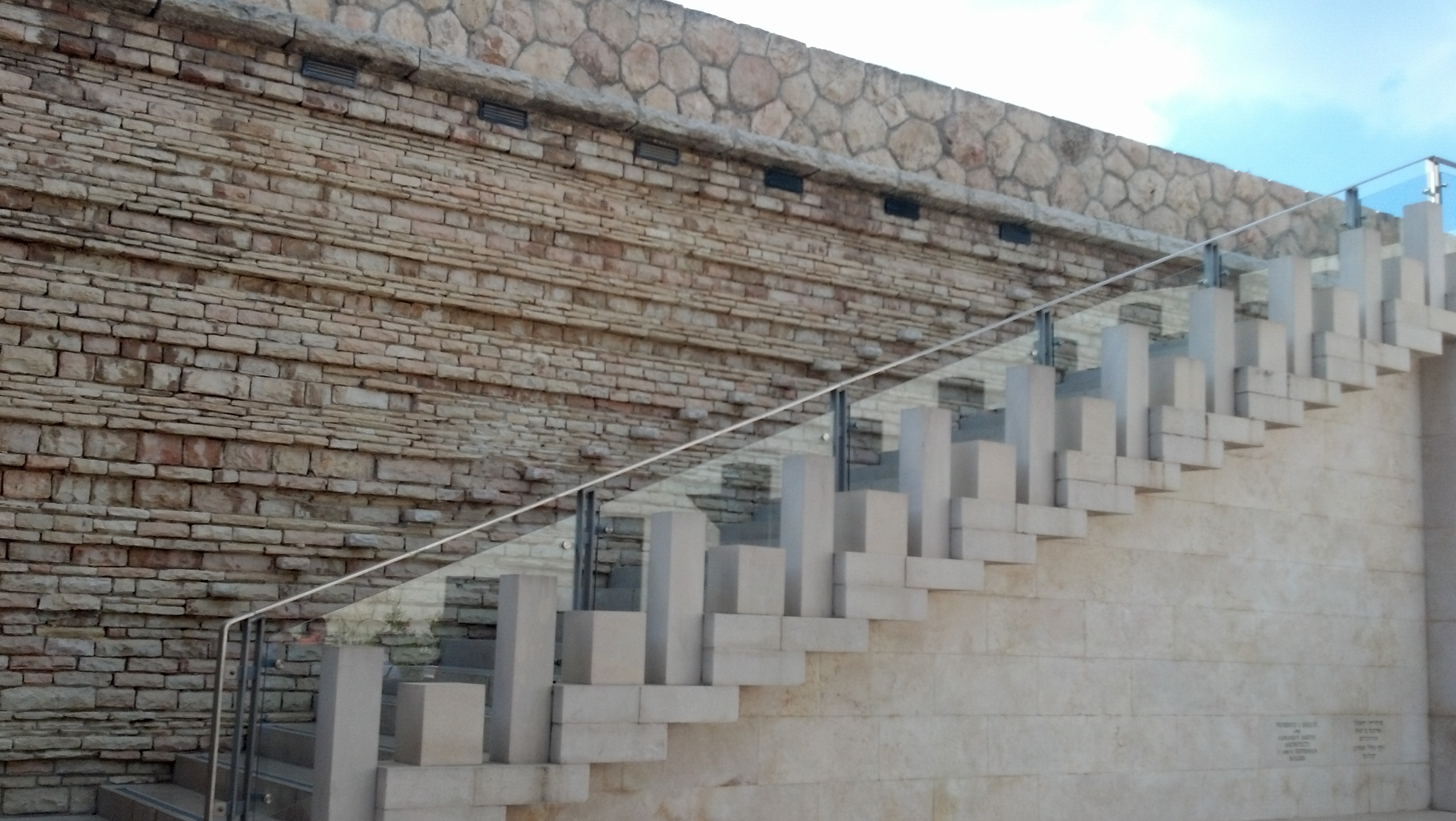 Shrine of the Bookת Jerusalem - the way to the entrance